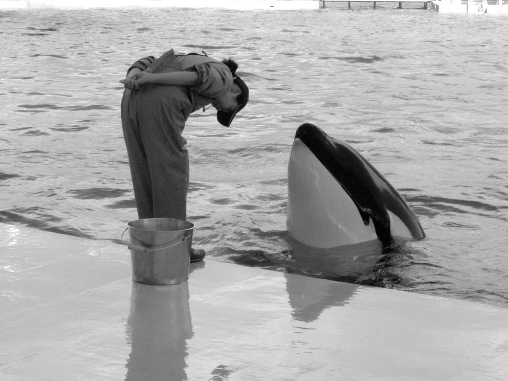 A female bowing to a whale